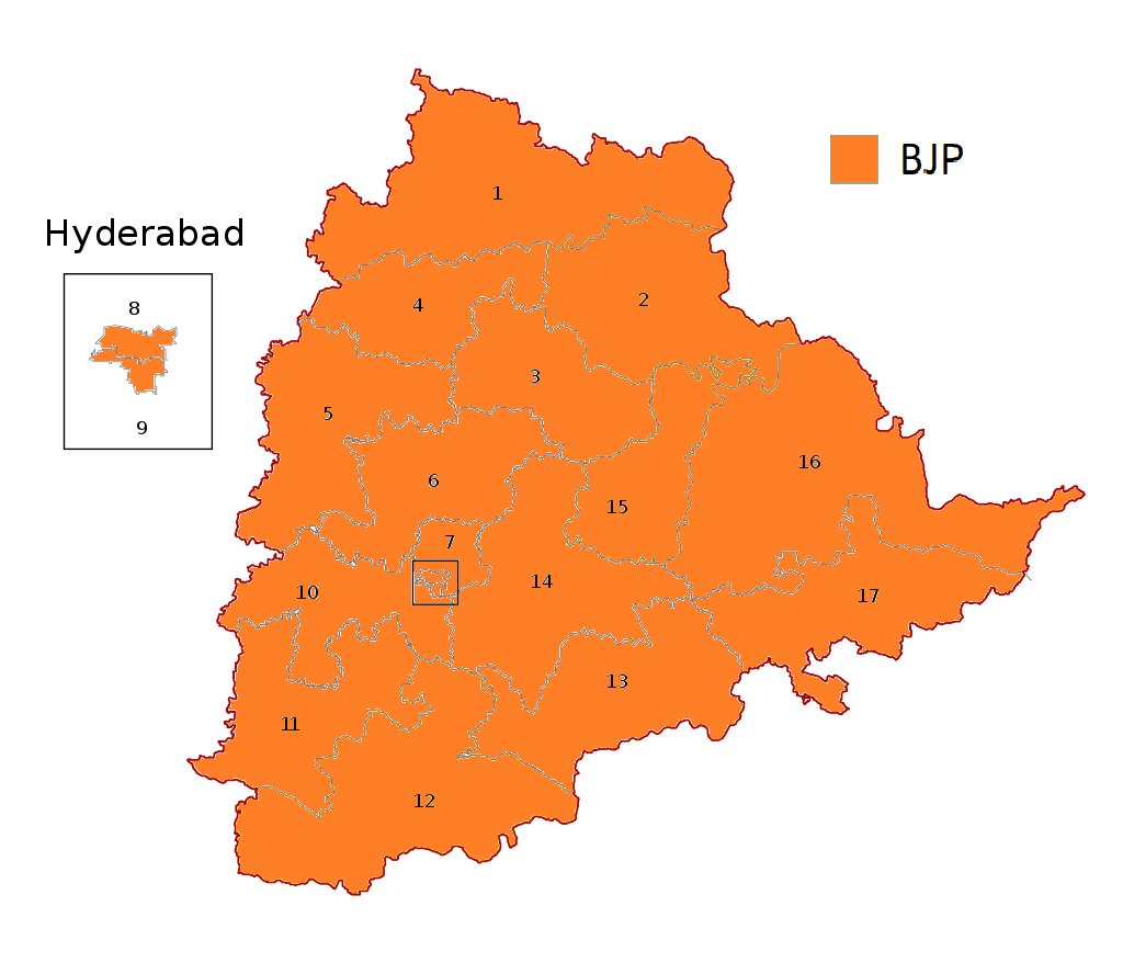 Seat Sharing of NDA in Telangana Colour Coded in 2019 General Election